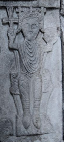 11th century depiction of a king, suggested by art historians and arhaeologists Ivo Babić and T. marasović most likely to be that of Demetrius Zvonimir (